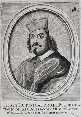 Cardinal Cesare Maria Antonio Rasponi